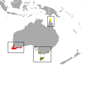 green - Distribution of Southern Brown Bandicoot (Isoodon obesulus), yellow - Distribution of Isoodon obesulus peninsulae, red - Distribution of Isoodon fusciventer